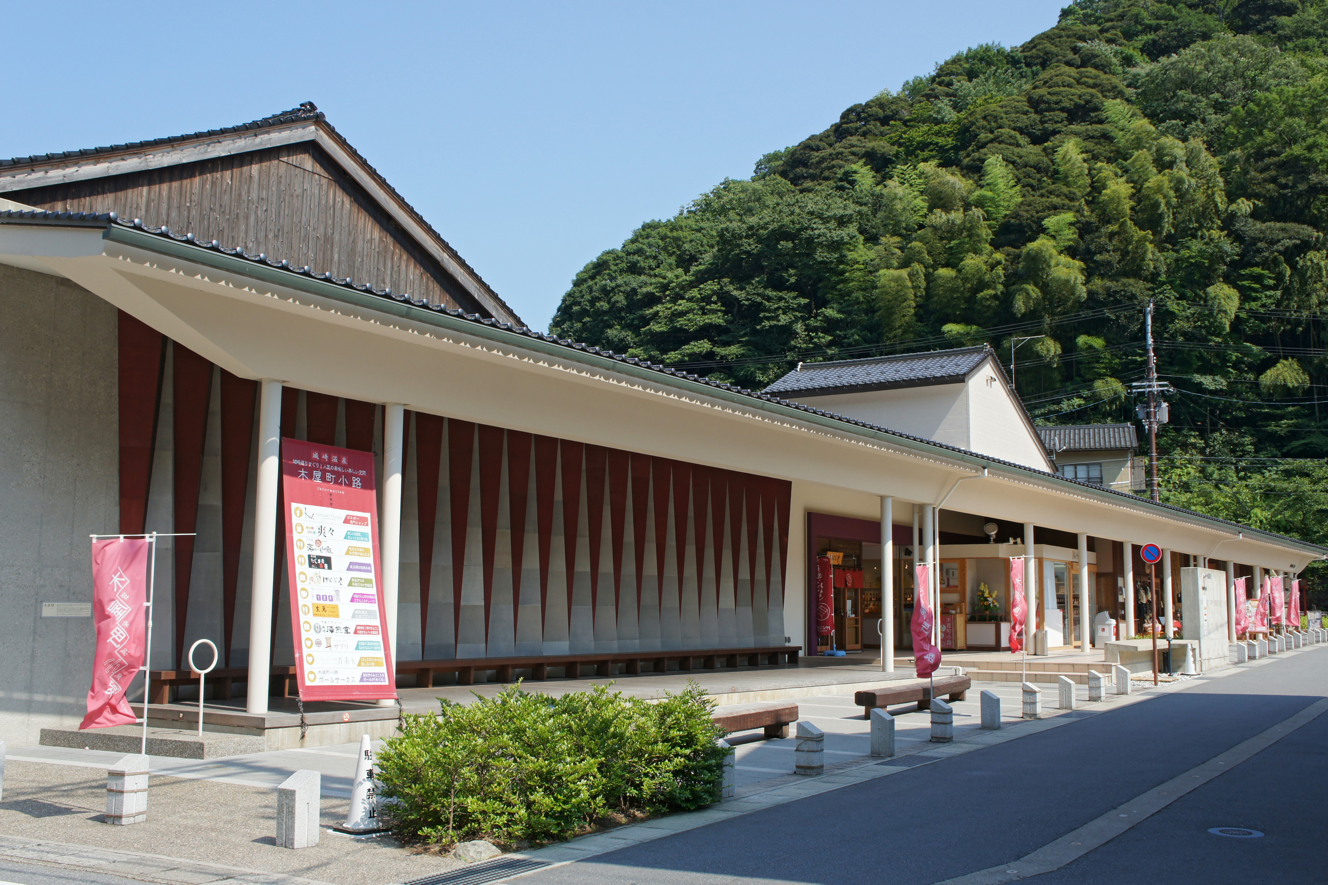 Kiyamachi-kouji of Kinosaki Onsen in Toyooka, Hyogo prefecture, Japan.